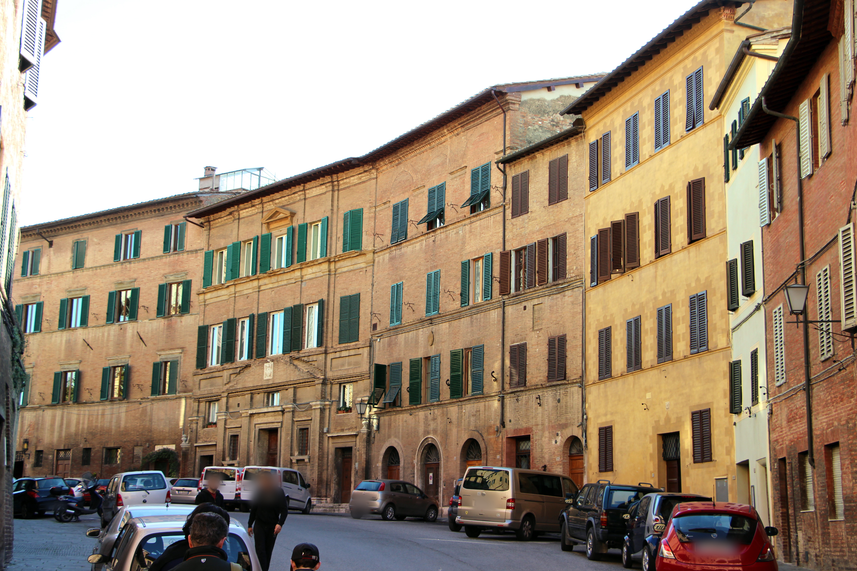 Pian dei Mantellini, Siena